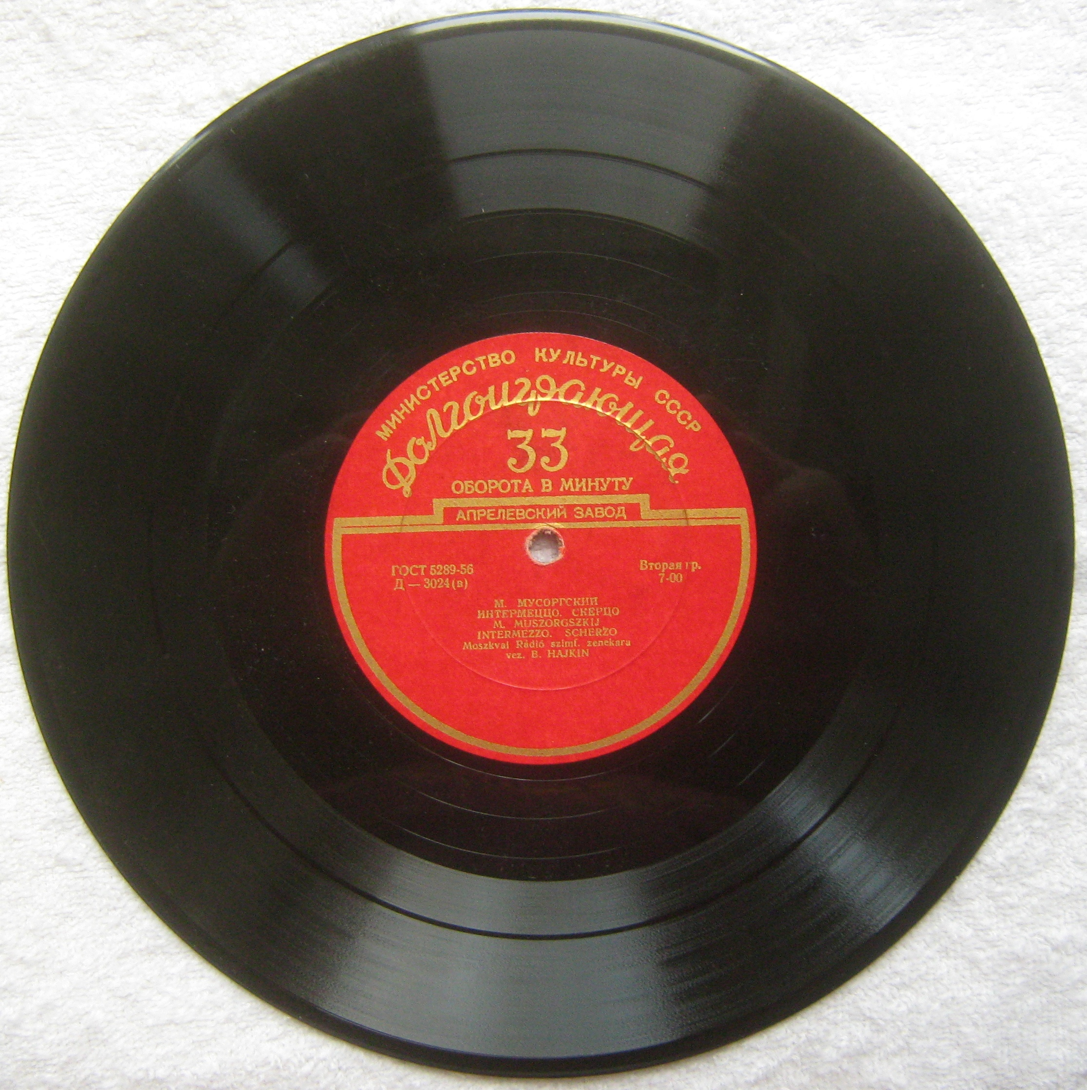 Mussorgsky. Intermezzo. Scherzo. Moscow Radio Symphonic Orchestra. Captions in Hungarian.